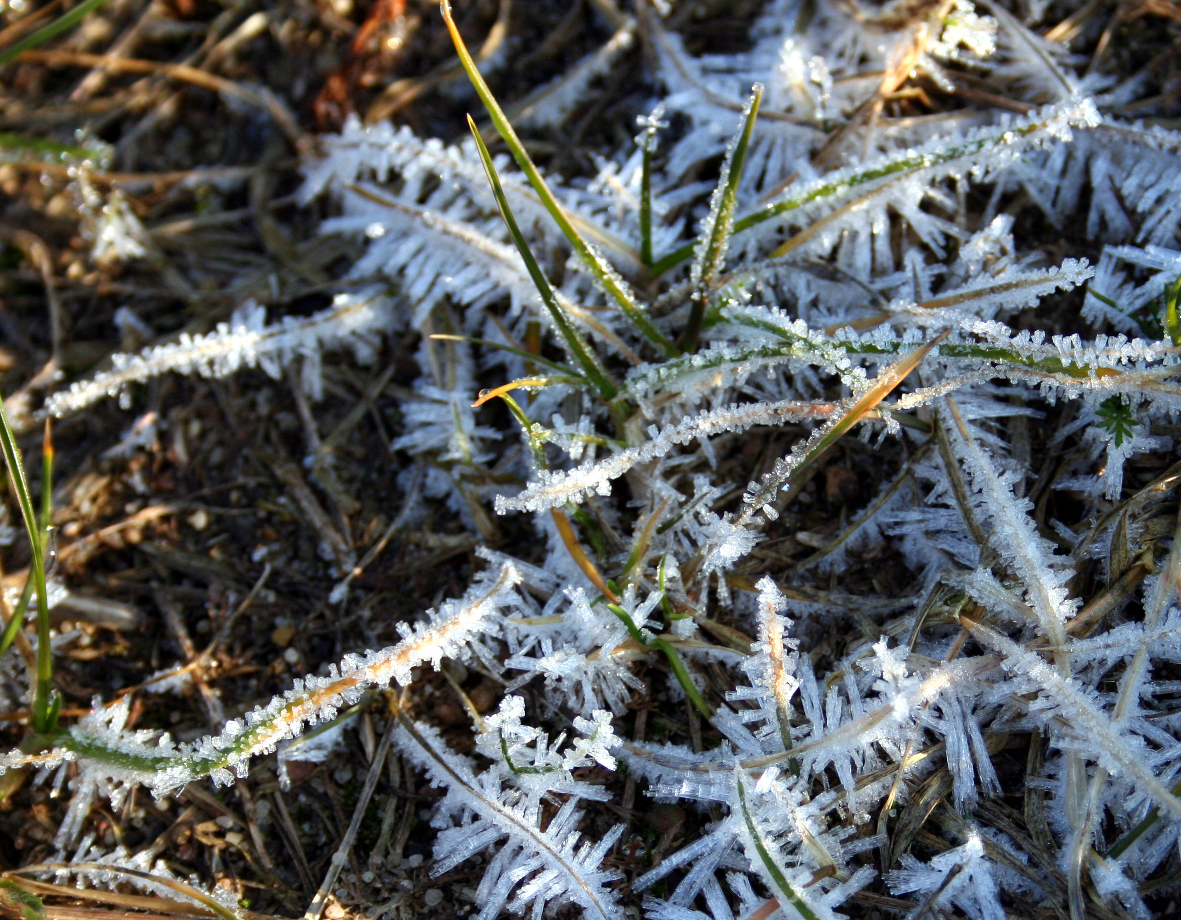 hoar frost